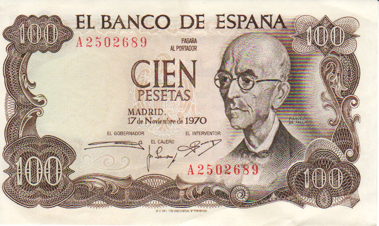 Spain, Manuel de Falla depicted, bank notes peseta, 100 peseta, later pattern (used until introduction of euro currency), observe Scan from own collection